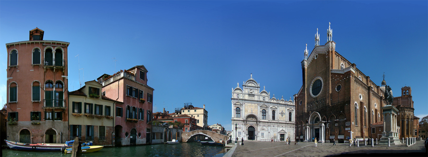 Campo San Zanipolo, Venice, Veneto, Italy. On the right, the Basilica of Santi Giovanni e Paolo; in the centre, the Scuola Grande di San Marco.